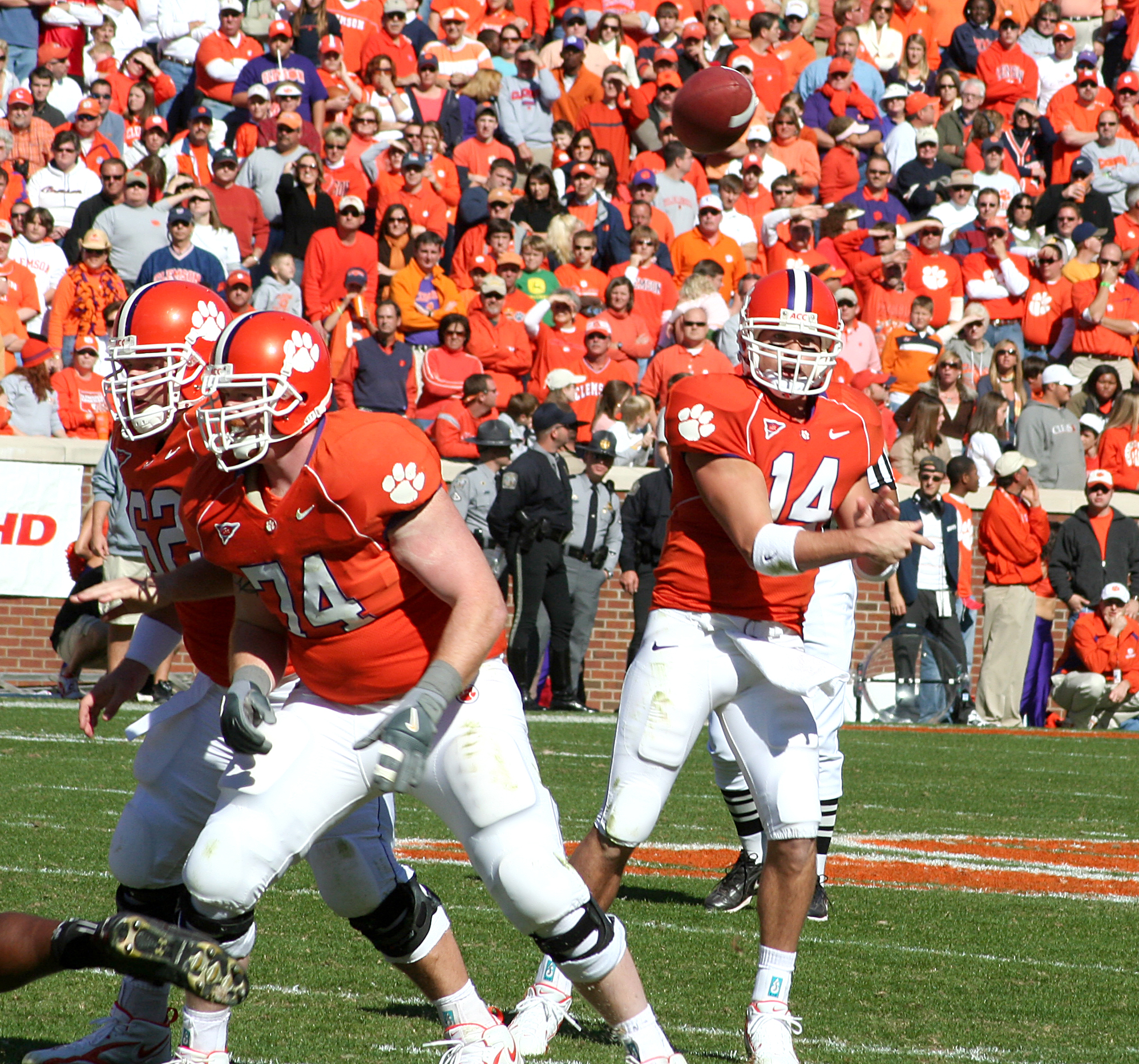 Will Proctor, QB for Clemson University throwing a pass on November 5, 2006